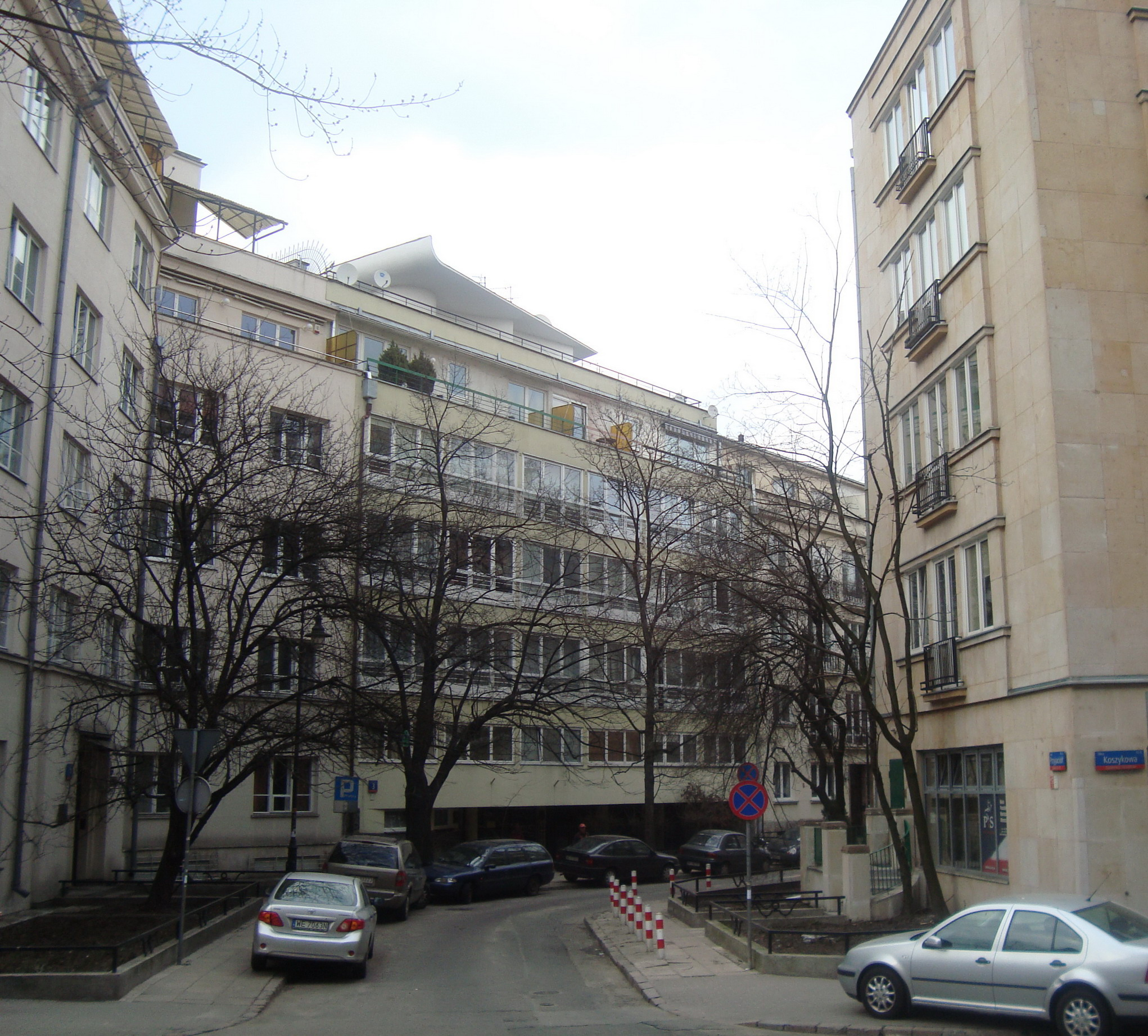 A view of the house with a "sail".